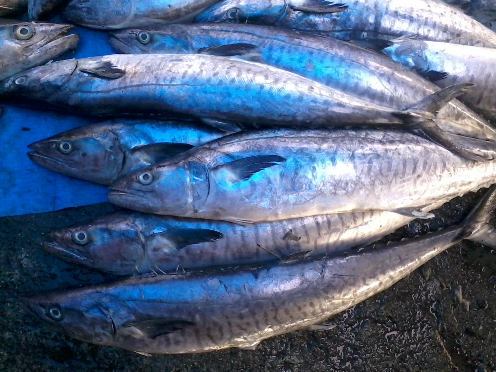 A fish